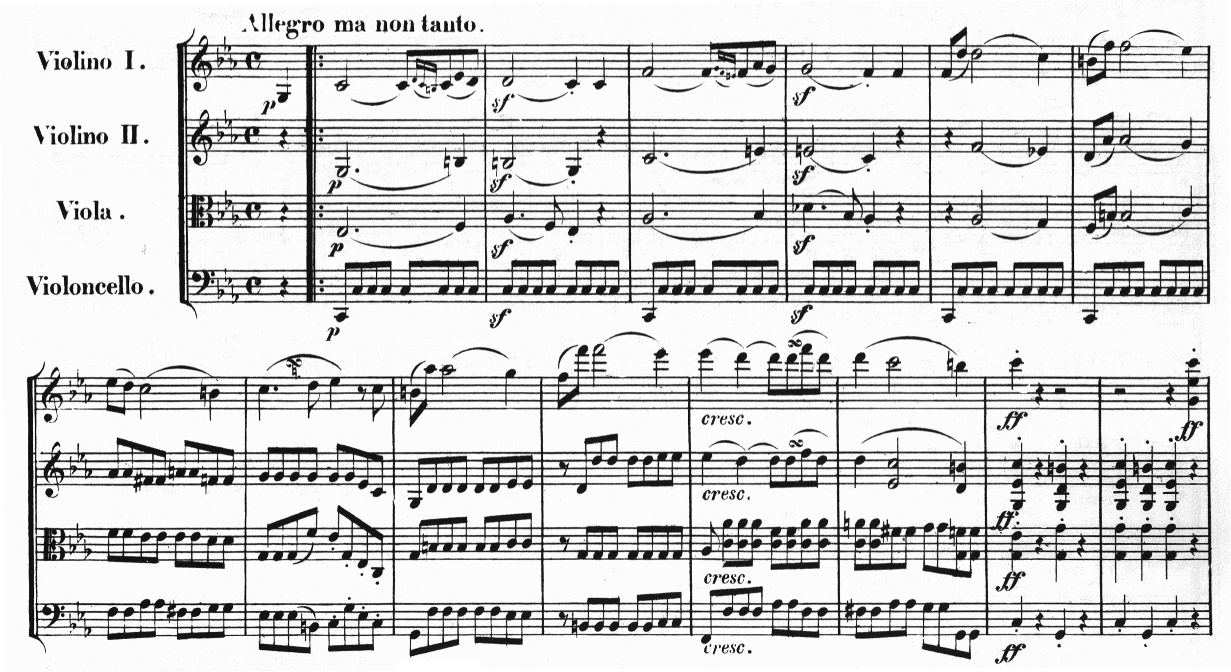 Opening measures of the String Quartet No. 4 Op. 18 by Ludwig van Beethoven.